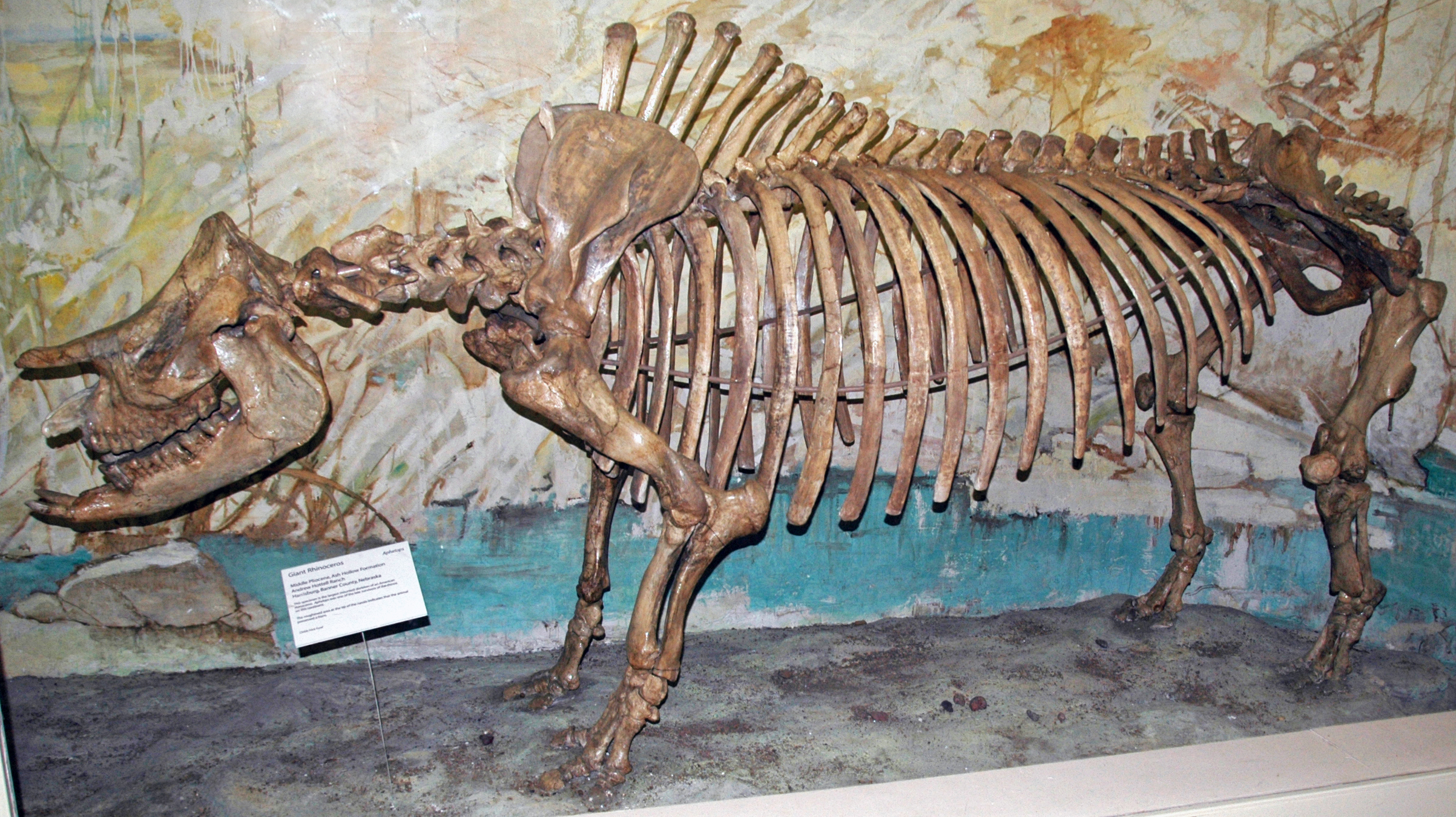 Aphelops sp. - fossil rhinoceros skeleton from the Miocene of Nebraska, USA. (public display, Nebraska State Museum of Natural History, Lincoln, Nebraska, USA) This specimen may be assignable to another fossil rhinoceros genus. From museum signage: "This specimen is the largest mounted skeleton of an American rhinoceros. Aphelops was one of the late survivors of the rhinos on this continent. The roughened area at the tip of the nasals indicates that the animal possessed a horn. " Classification: Animalia, Chordata, Vertebrata, Mammalia, Perissodactyla, Rhinocerotidae Stratigraphy: Ash Hollow Formation, Barstovian, Middle Miocene Locality: Andrew Hottell Ranch rhino quarry, northern erosional edge of the Cheyenne Tableland, west of the town of Harrisburg, western Banner County, western Nebraska, USA (Section 7, T18N, R57W) See info. at: and